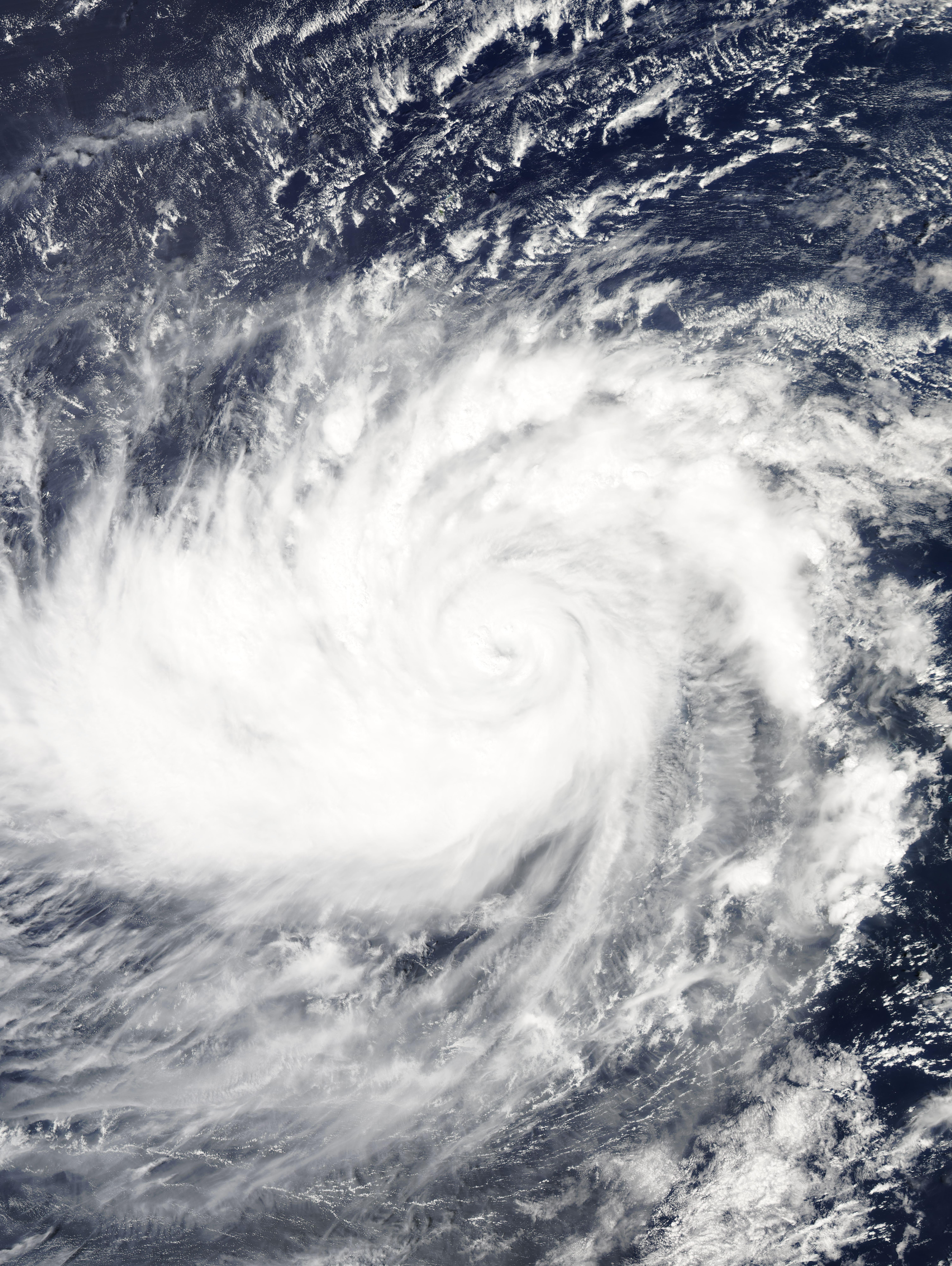 Typhoon Wutip forming an eye on February 22, 2019.